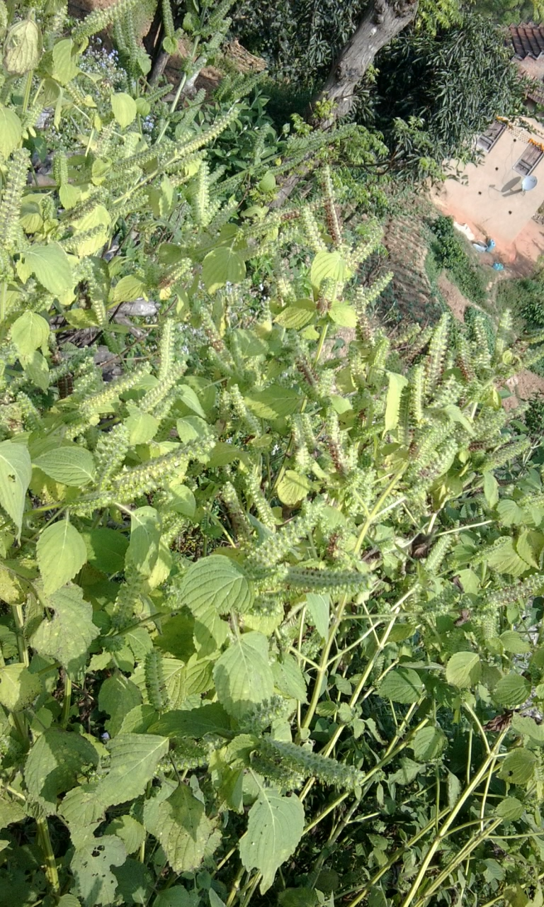 A plant from Nepal